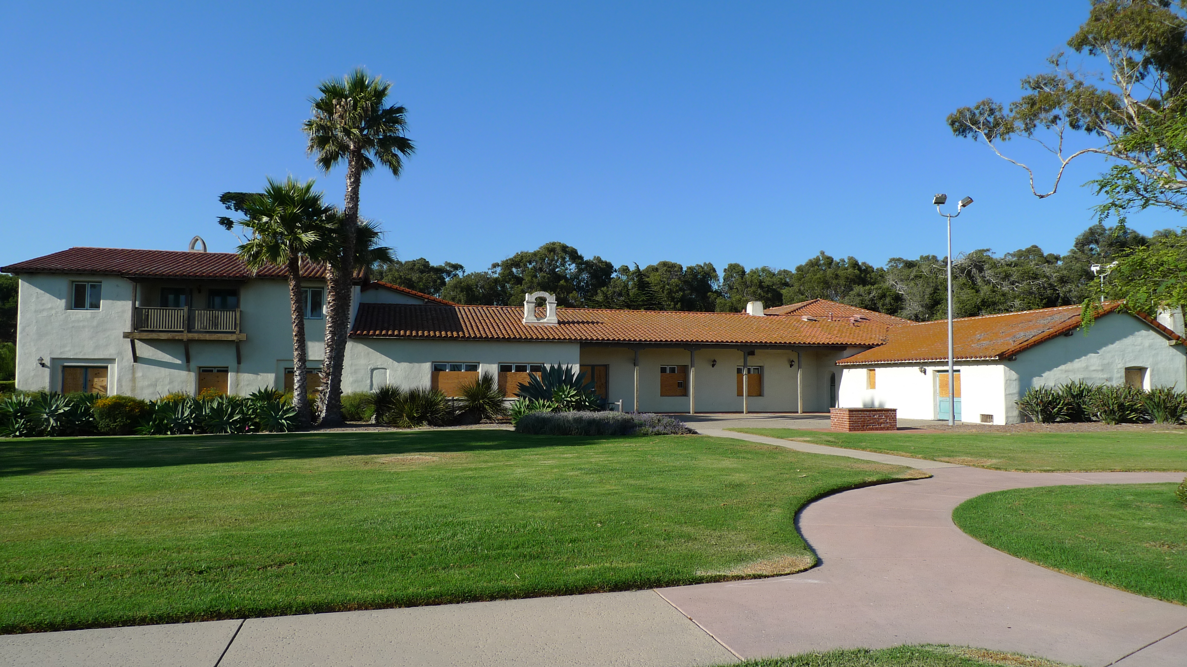 Devereux Hall (also known as Jacobs Hall or Campbell Mansion) in Goleta at Coal Oil Point, historical landmark #27 in the County of Santa Barbara, California: Built in the early 1920s, a Spanish Colonial Revival style mansion designed by Mary Osborne Craig.